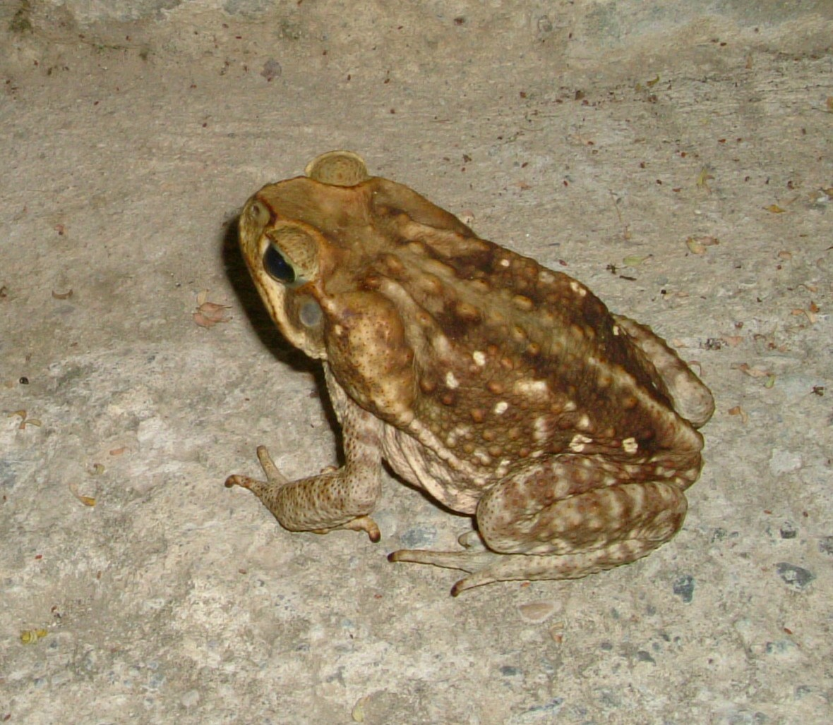 Cane Toad. Punta Quepos, Costa Rica